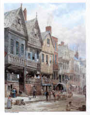 Painting of Bishop Lloyd's Palace, Chester by Louise Rayner (1832-1924)